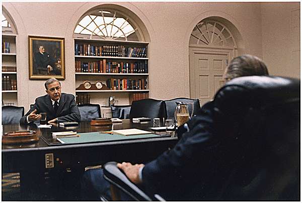 Senator Eugene McCarthy meets with President Lyndon B. Johnson